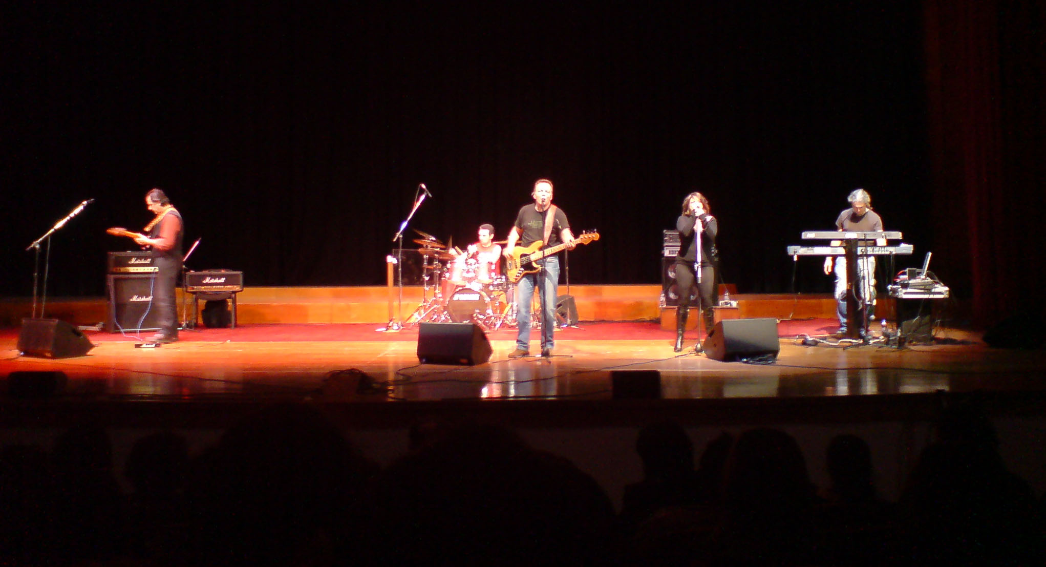 Socrates Drank The Conium performing live at the Conference & Cultural Centre in the University of Patras, 2008.